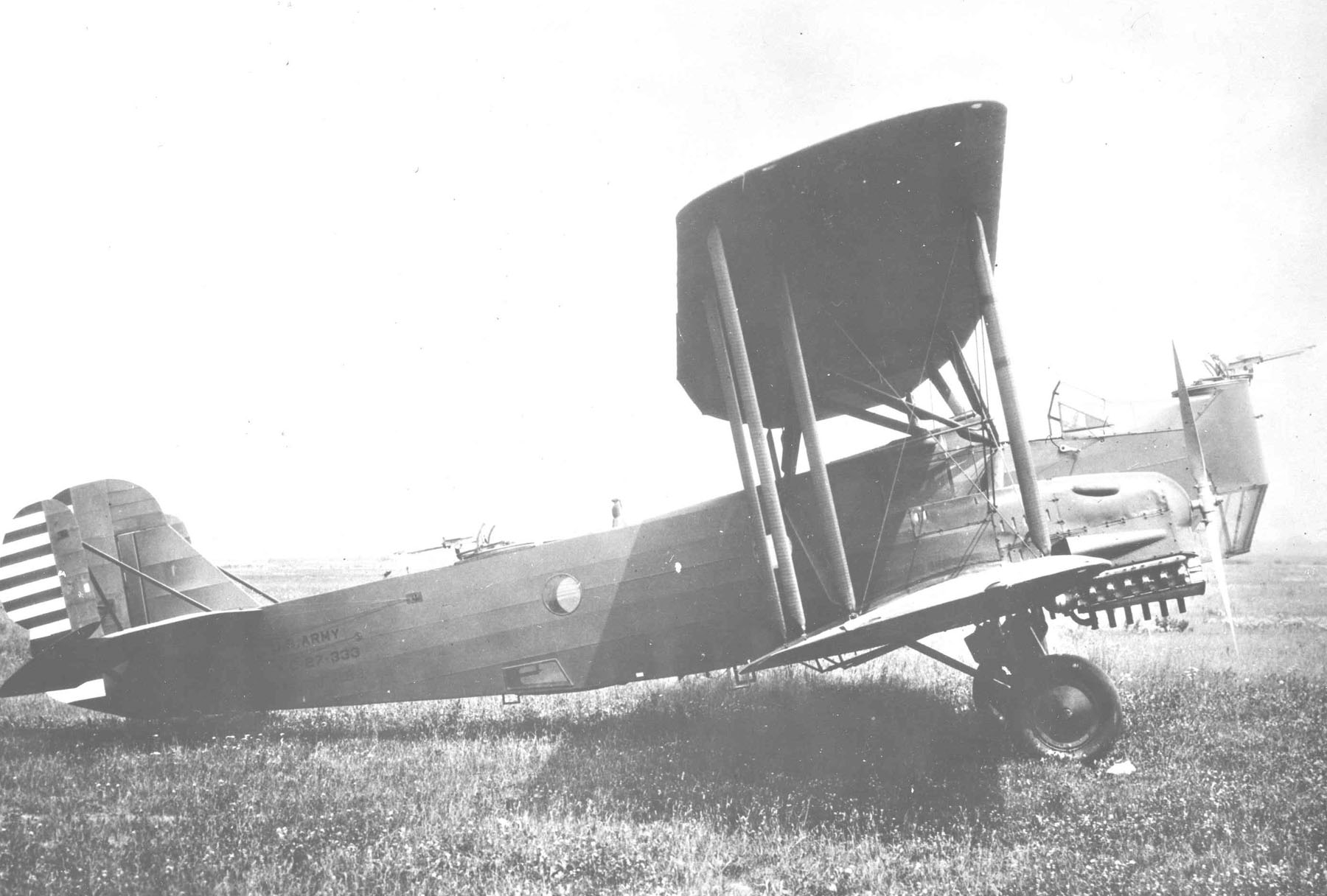 Huff-Daland XLB-3 bomber